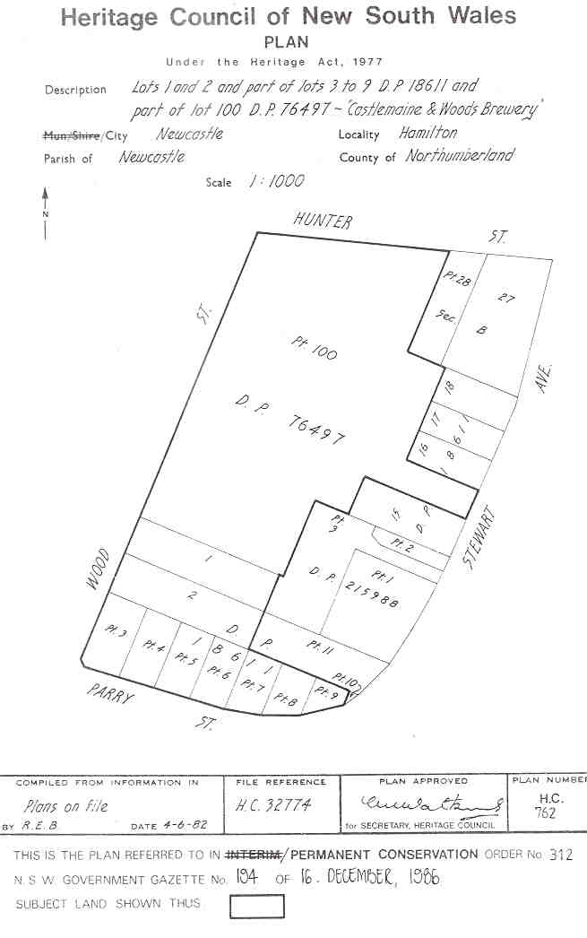 Castlemaine Brewery: PCO Plan Number 312